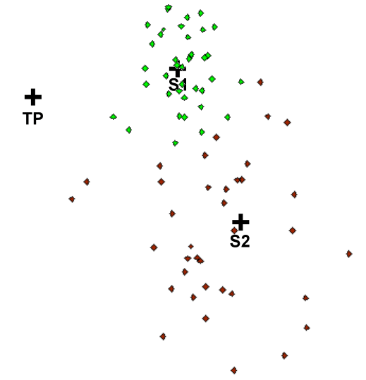 Schematic diagram demonstrating the dilution of precision (DOP) for GNSS. TP: True location. S1: small DOP for specific satellite constellation. S2: large DOP for other satellite constellation.